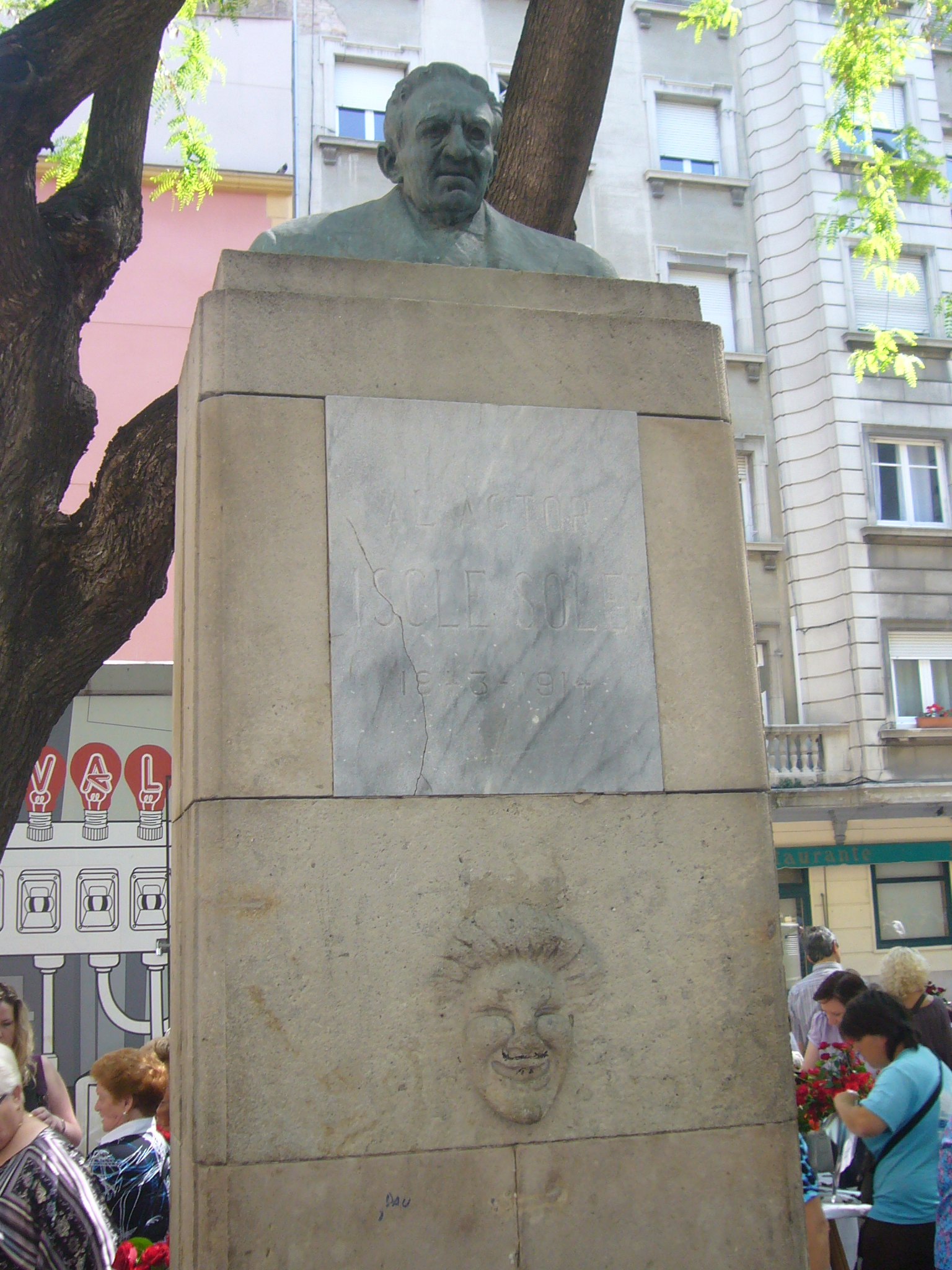 Bust of Iscle Soler i Samsot (Barcelona, 1843 - Terrassa, 1914), actor. Located in Hospital street, Raval, Ciutat Vella, Barcelona.